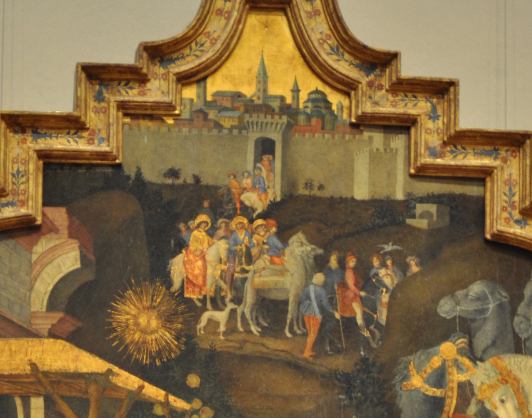 detail of painting